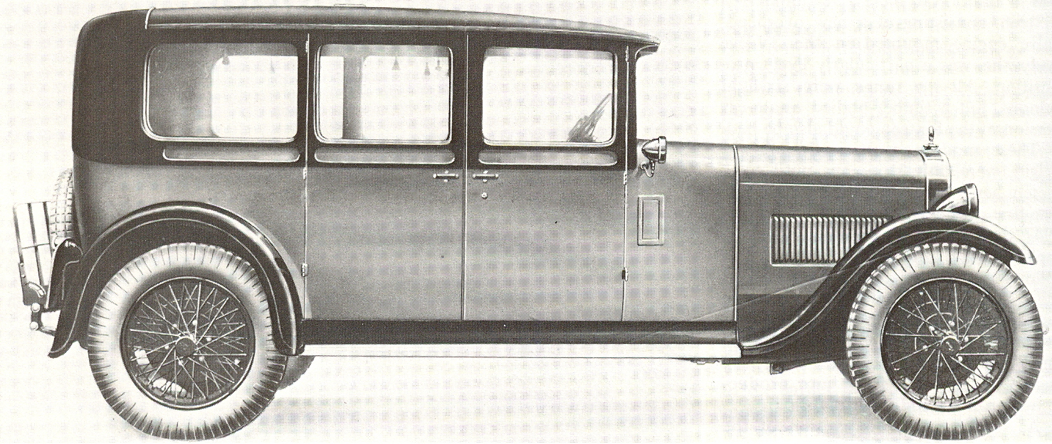 1931 Austin 20 Raleigh limousine